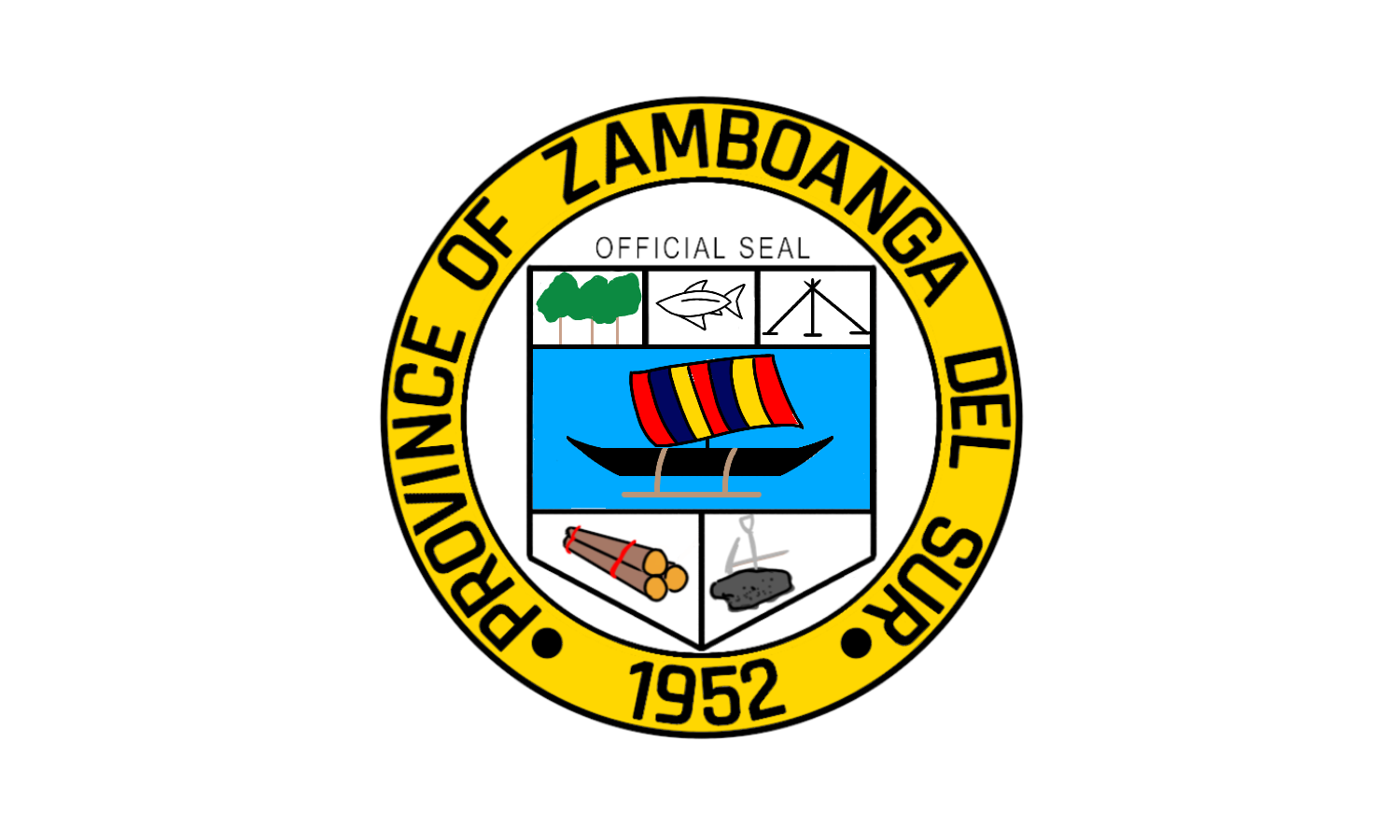 Flag of Zamboanga del Sur used in the Sangguniang Panlalawigan chamber